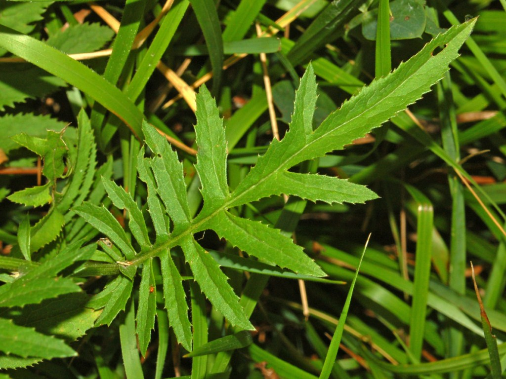 Serratula tinctoria - Piani di Praglia, Genova, Italy